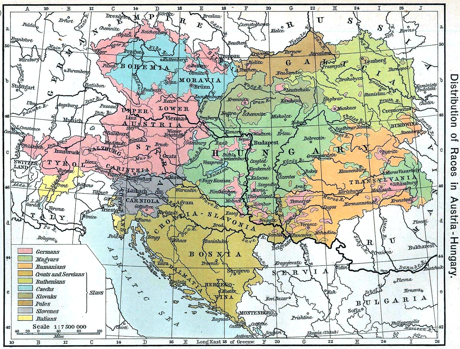 "Distribution of Races in Austria-Hungary" from the Historical Atlas by William R. Shepherd, 1911. Actually showing language distribution.